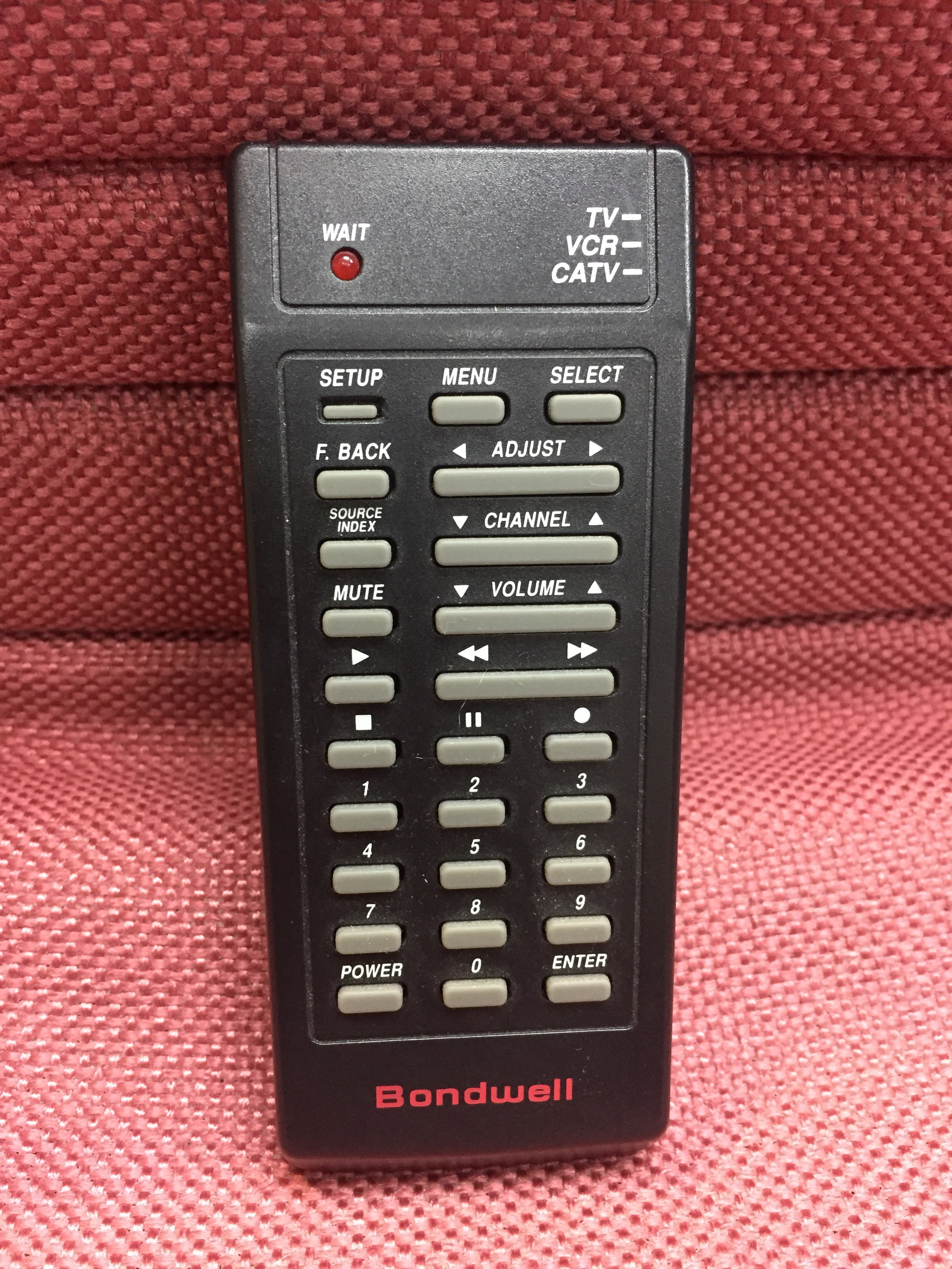 Bondwell BW-5040